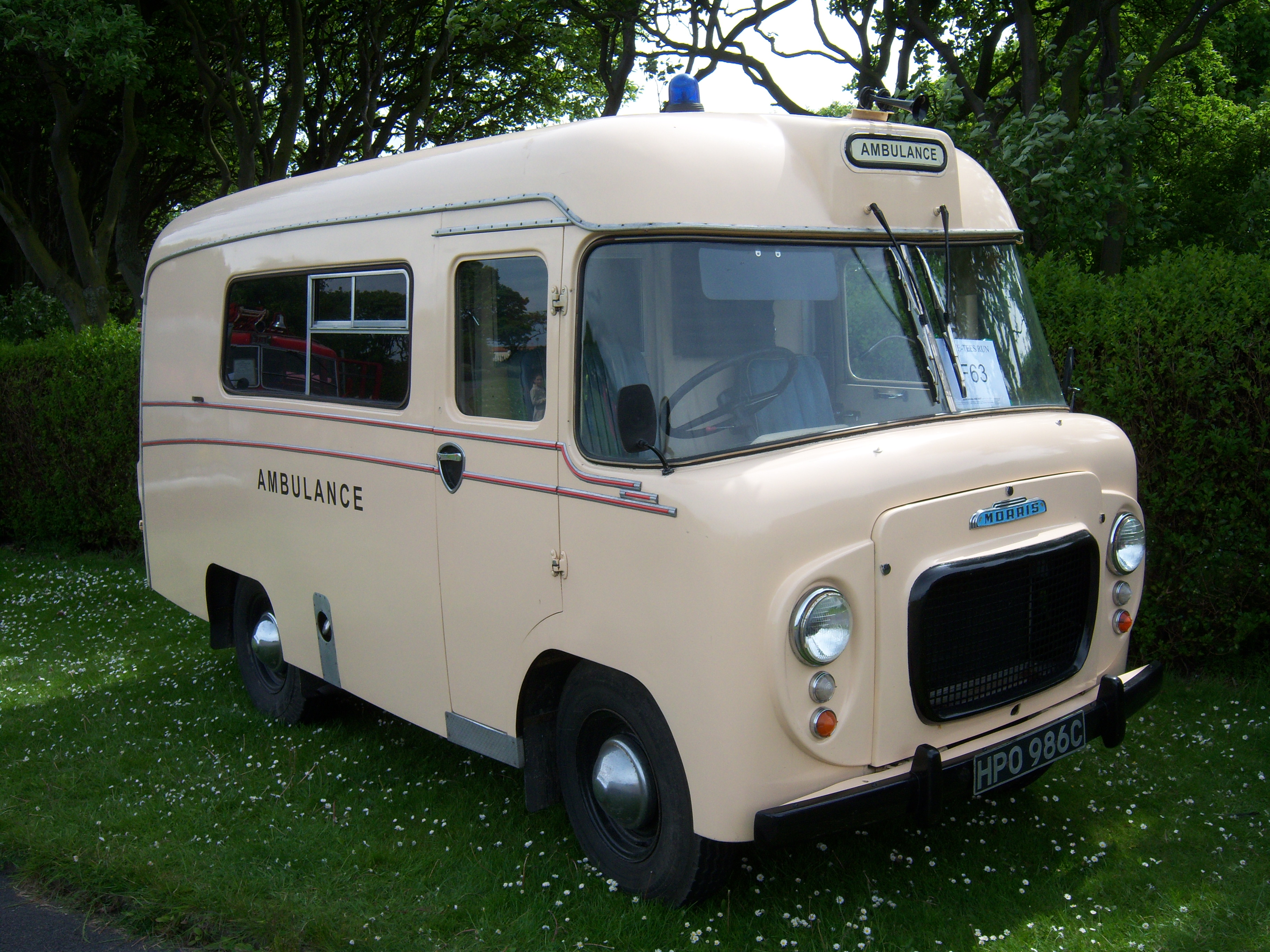 A 1965 Morris LD light van (reg. HPO 986C) with Wadham Stringer built ambulance bodywork, pictured at the end of the 2012 HCVS Tyne-Tees Run.